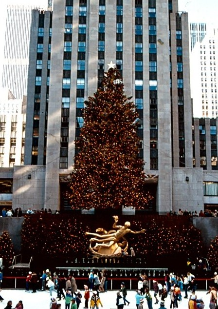 Christmas tree at Rockefeller Plaza, New York, NY